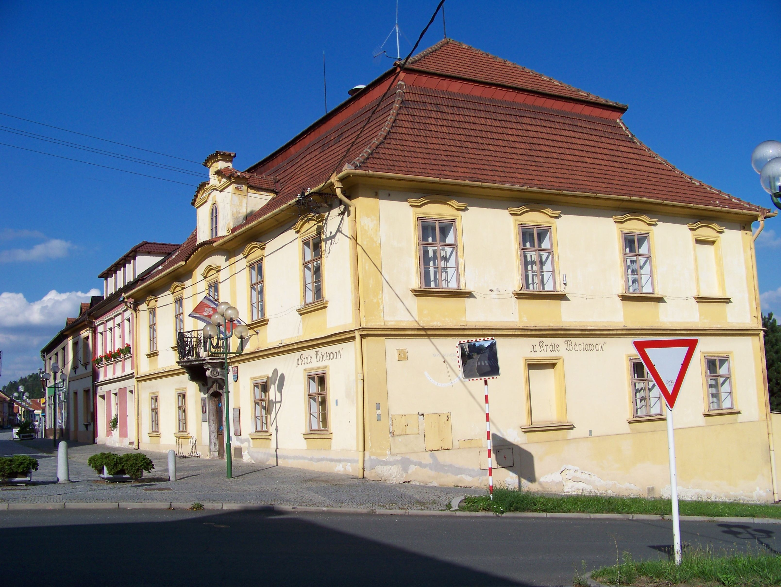 Zdice, Beroun District, Central Bohemian Region, the Czech Republic. Husova and Vorlova streets, a town hall.